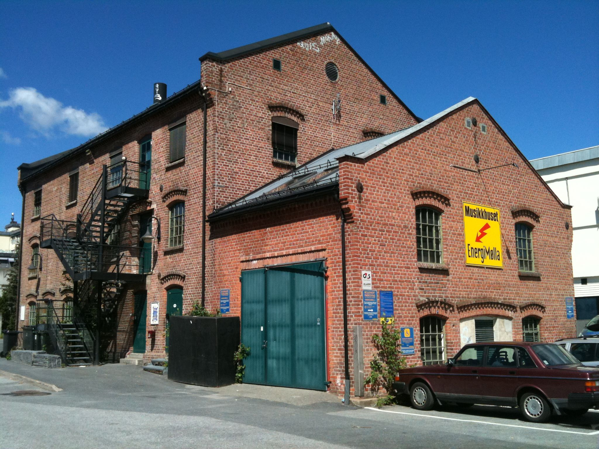 EnergiMølla music house (Kongsberg)